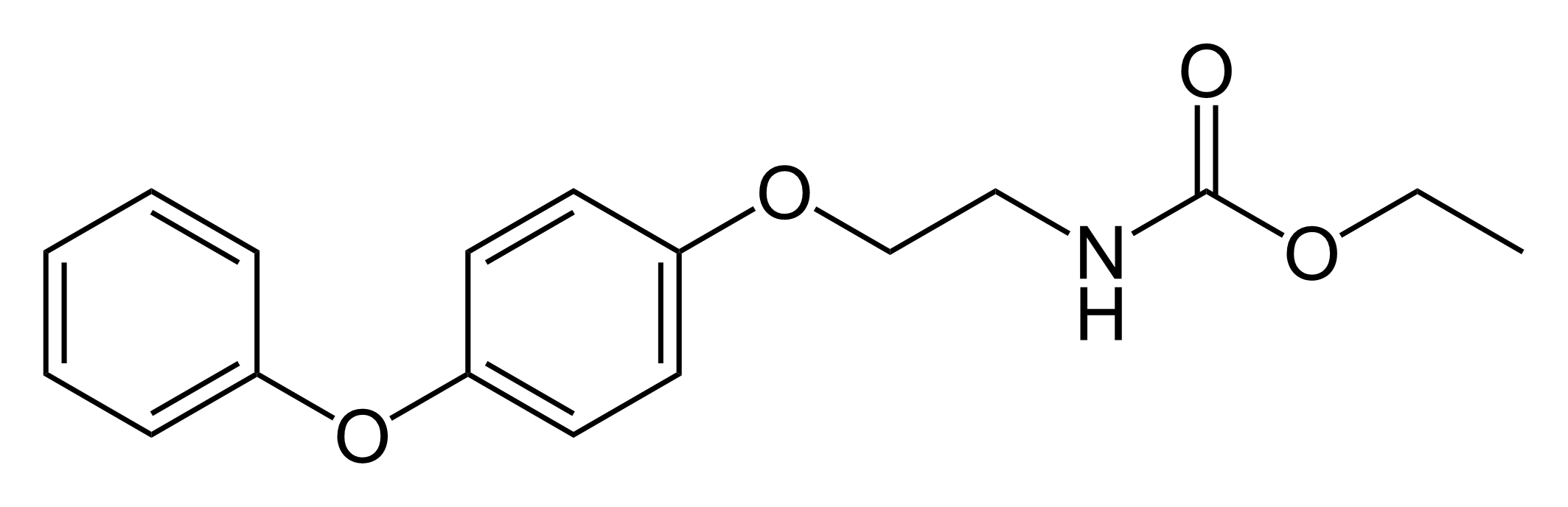 Chemical structure of Fenoxycarb